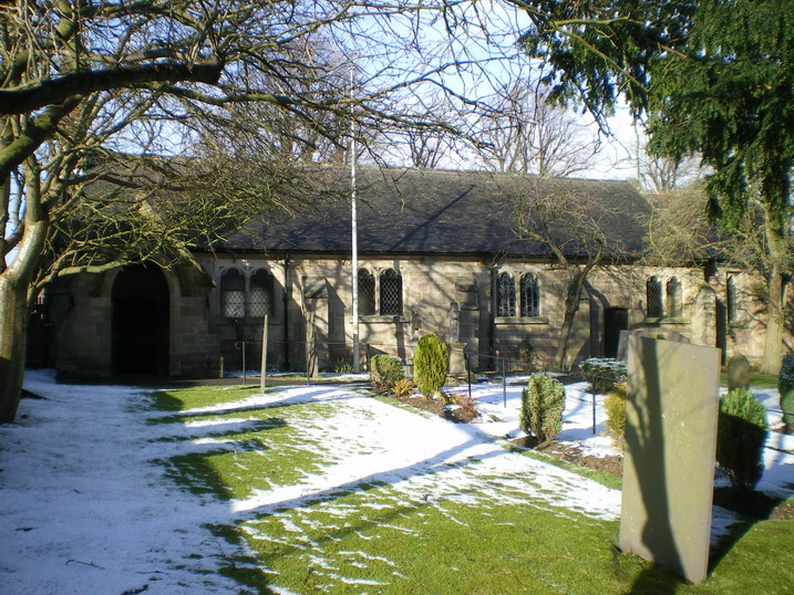 All Saints' parish church, Turnditch, Derbyshire, seen from the south